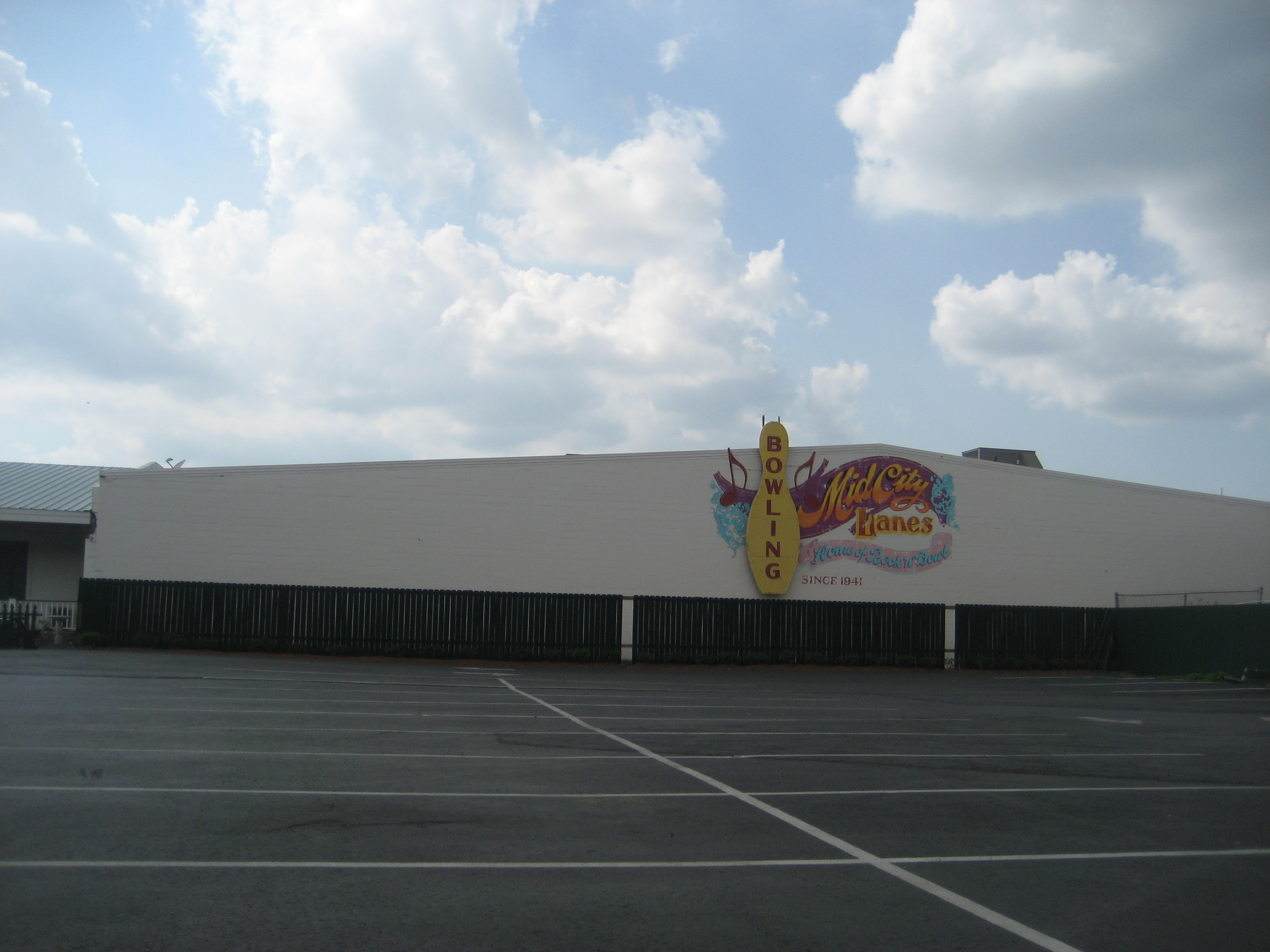 New Orleans: "Rock n' Bowl" sign at new location on Earhart Boulevard off Carrollton Avenue. View from parking lot on Carrollton Avenue, with signage similar to that of their old location.